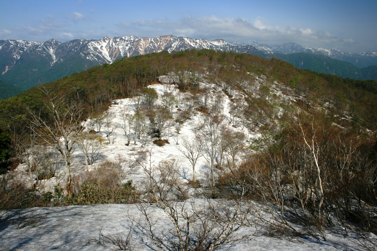 Mount_Kaerikumo